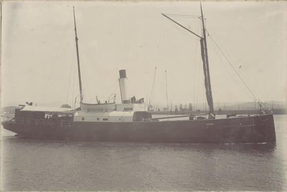 The Koonya. Built 1887 at Hobart - W. Bayes. Bought Moruya Steam Navigation Co. Sept 1896. Lost 1898 at Cronulla. Captain Nicholls